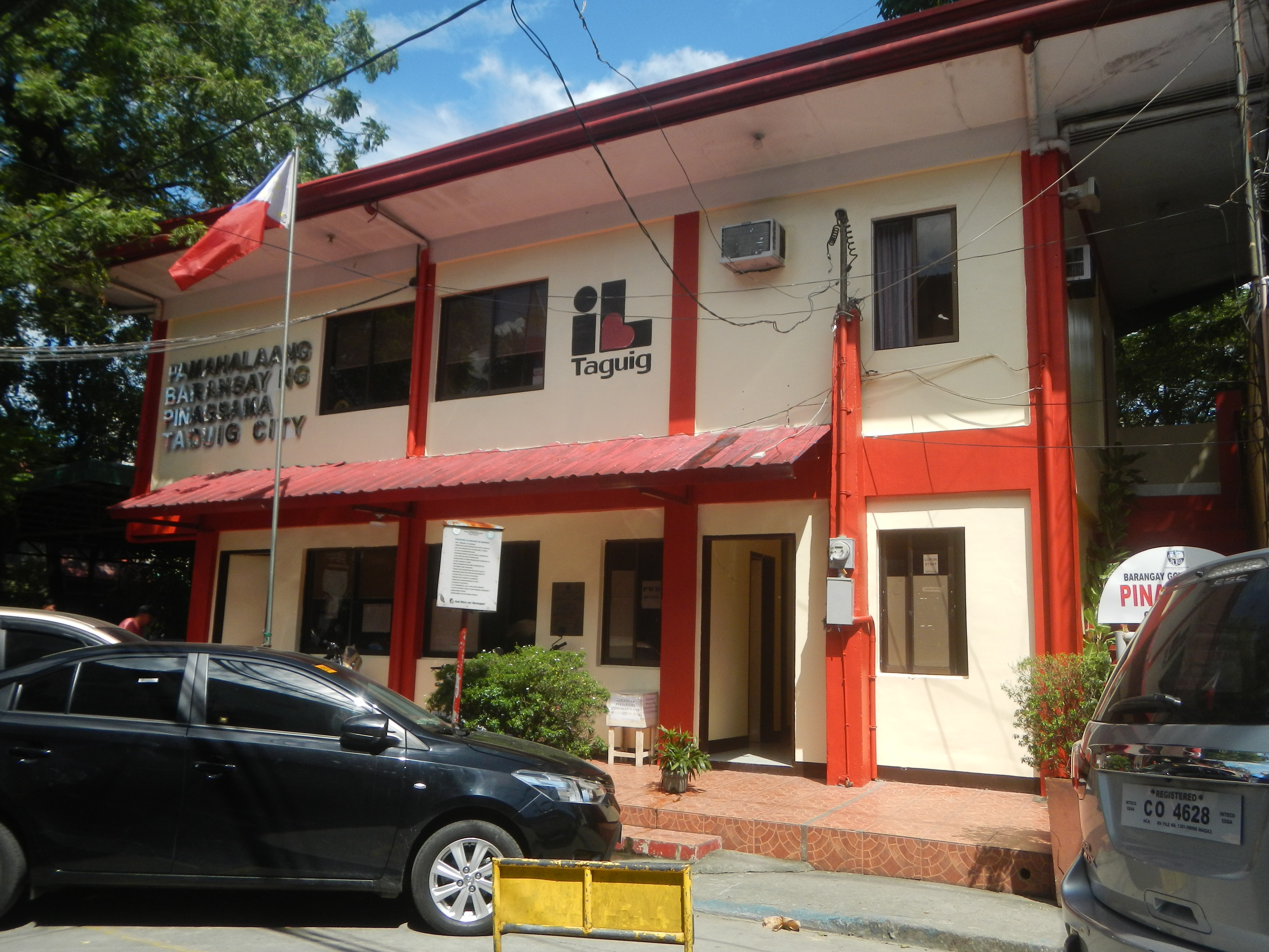 Pinagsama VillageLegislative district of Taguig City Legislative district of Pateros-Taguig City Barangays Pinagsama Pinagsama 14°31'38"N 121°2'59"E North Signal Village 14°30'54"N 121°3'21"E Central Signal Village Central Signal Village 14°30'42"N 121°3'18"E South Signal Village 14°30'15"N 121°3'17"E Katuparan 14°30'56"N 121°3'39"E Taguig City (Note: Judge Florentino Floro, the owner, to repeat, Donor Florentino Floro of all these photos hereby donate gratuitously, freely and unconditionally all these photos to and for Wikimedia Commons, exclusively, for public use of the public domain, and again without any condition whatsoever).